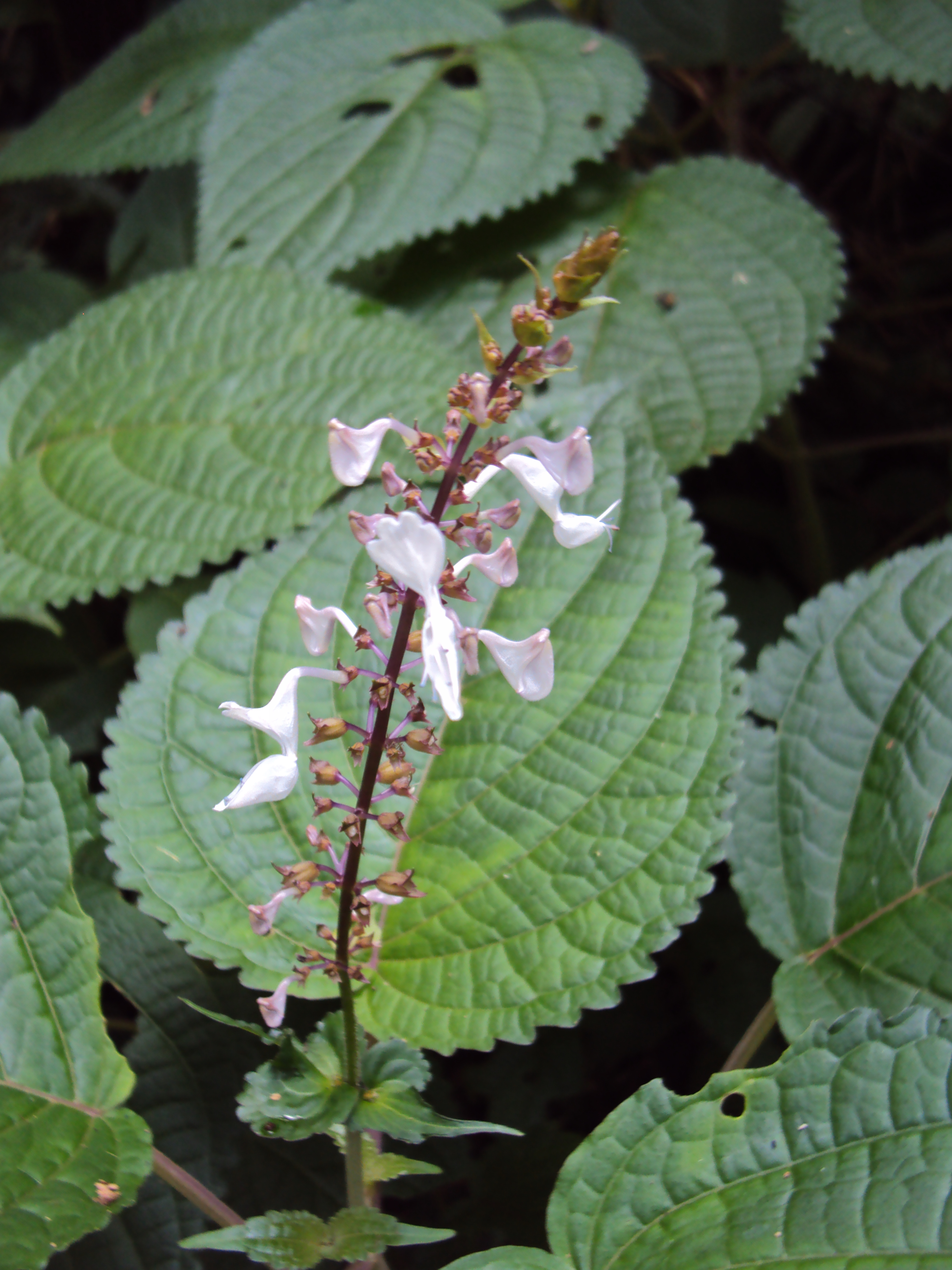 Plectranthus malabaricus